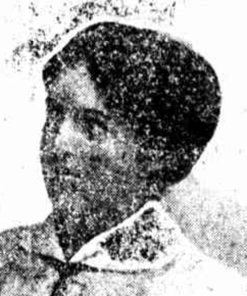 Joice NanKivell Loch MBE (1887-1982), Australian author, journalist and humanitarian worker who worked with refugees in Poland, Greece and Romania after World War I and World War II